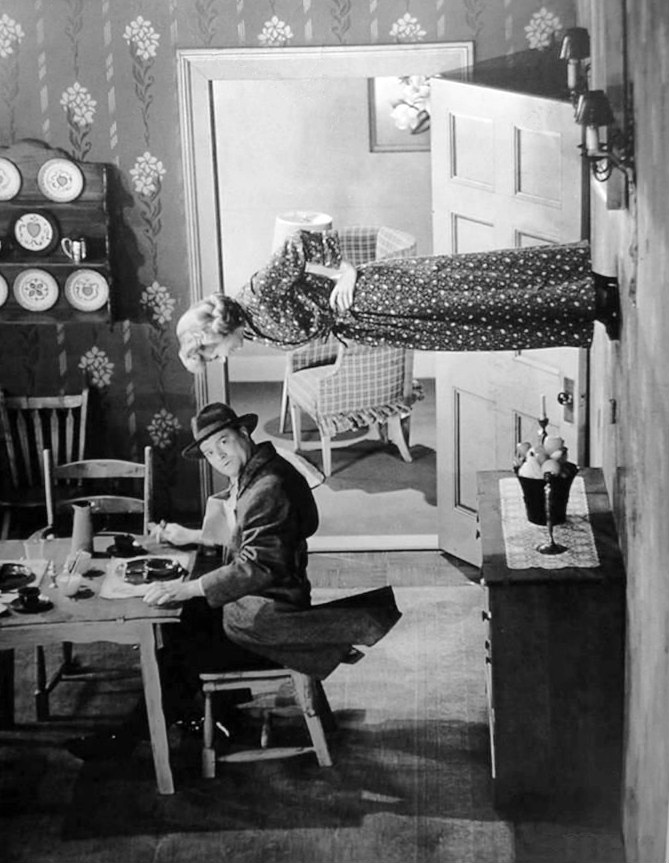 Photo of Red Skelton as Willie Lump Lump and Shirley Mitchell as his wife from a 1952 Red Skelton Show. The skit premise was that Willie's wife wanted to teach him a lesson about his drinking, so she hired a carpenter to re-do their living room. (Skelton had a set constructed that was perpendicular to the stage.) Willie's wife appears to go about the home normally, but to Willie, she appears to be walking on the living room walls. The photo shows Willie at the table with his wife on the wall.